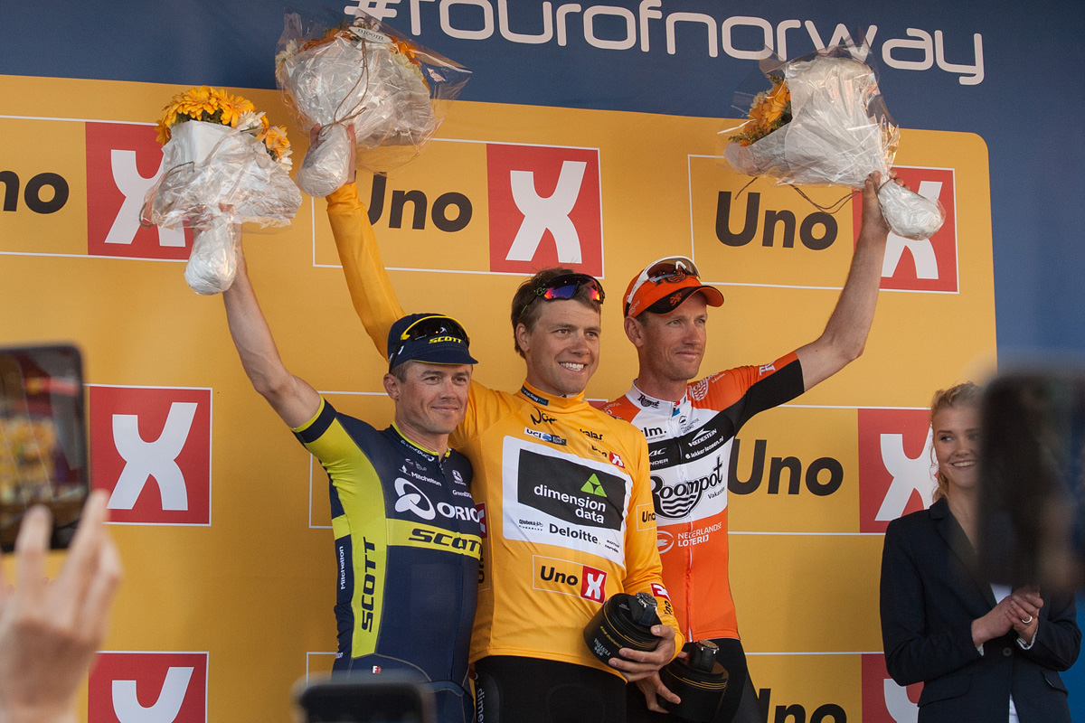 General classification winners: Simon Gerrans (2nd), Edvald Boasson Hagen (1st), Pieter Weening (3rd).